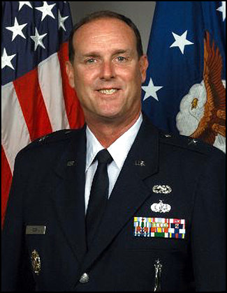 Brigadier General (later colonel) Richard S. Hassan from [1]. Official U.S. Air Force photo, therefore ineligible for copyright.